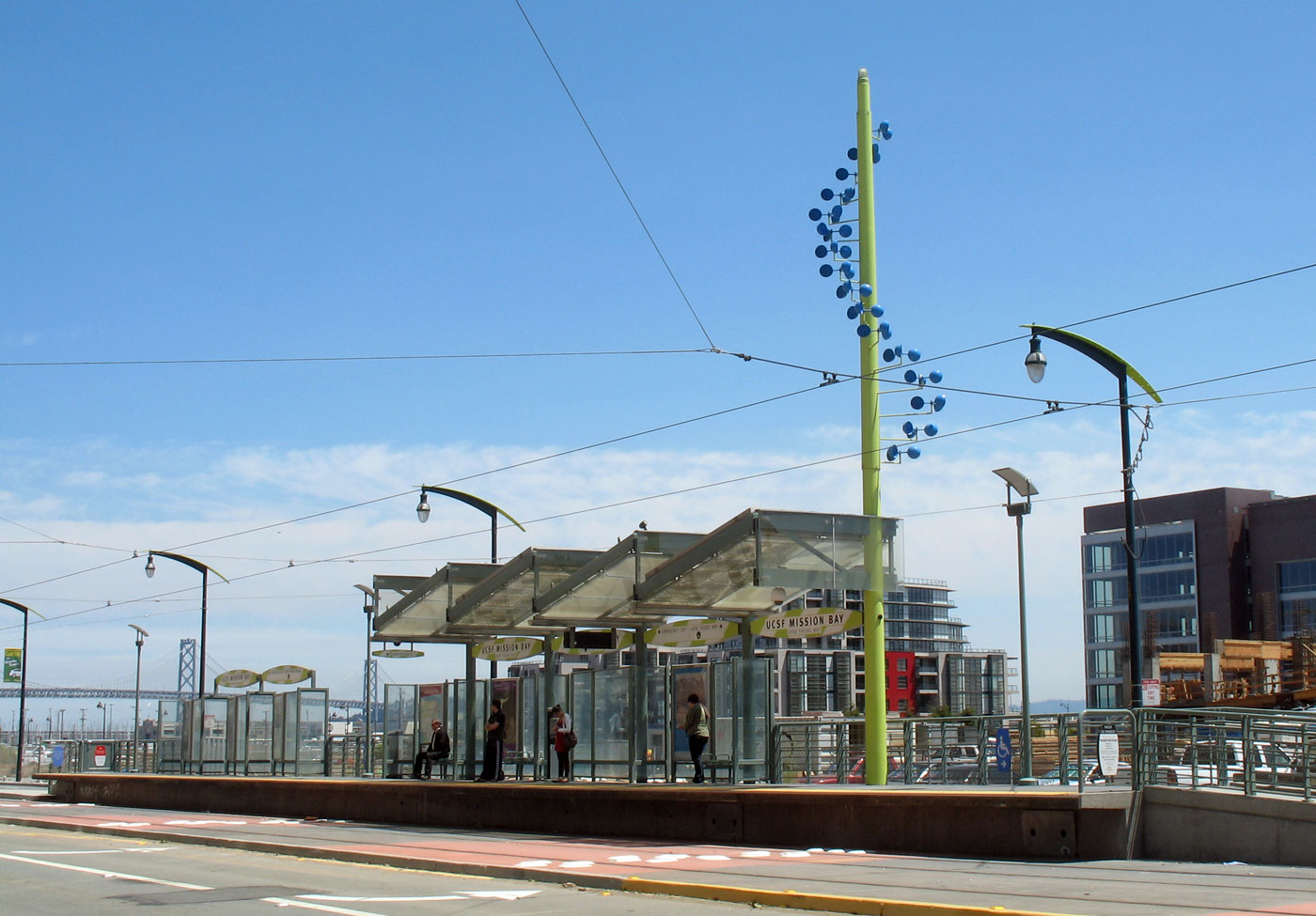 UCSF/Mission Bay station in 2008